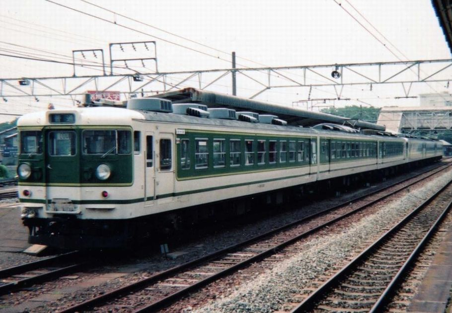 East Japan Railway Company, EMU Type 165 Express "Akakura" at Komoro Sta.